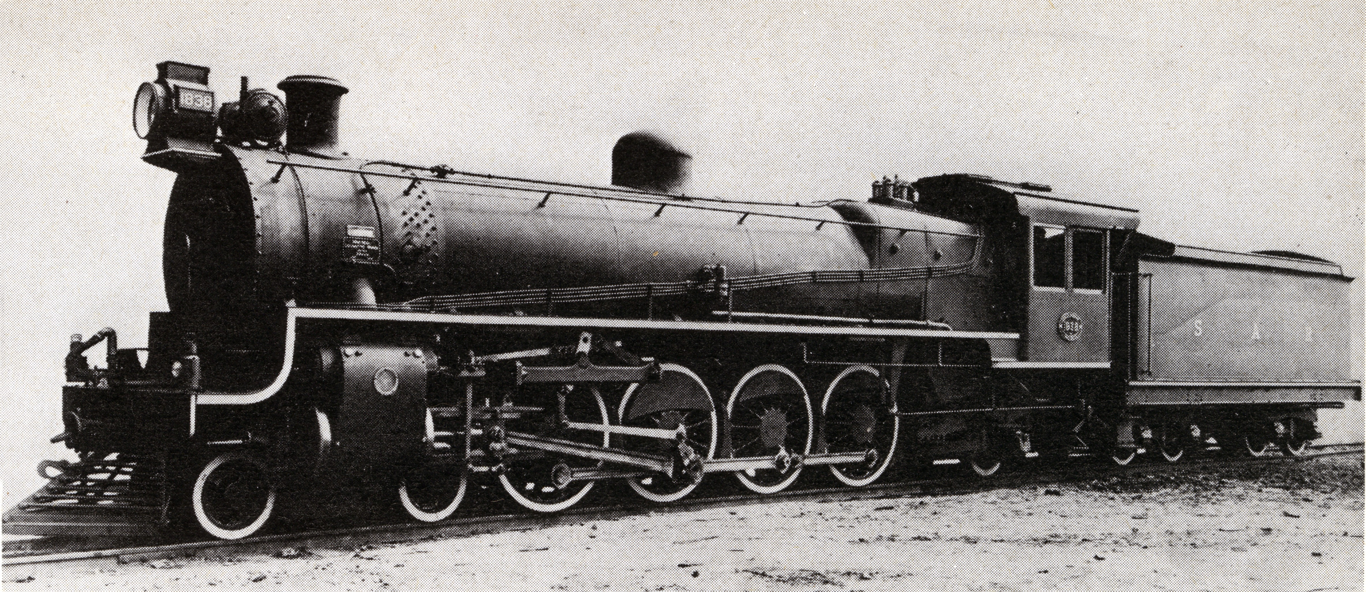 SAR Class 15B 1838 (4-8-2)